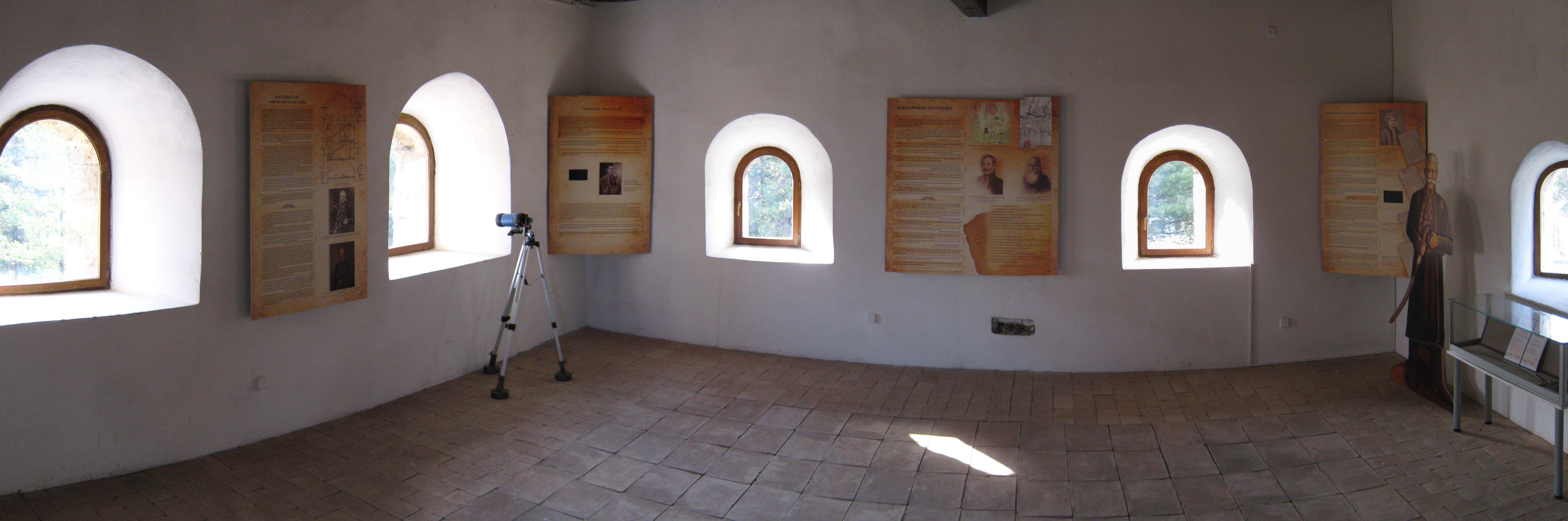 Nenadović Tower in Valjevo